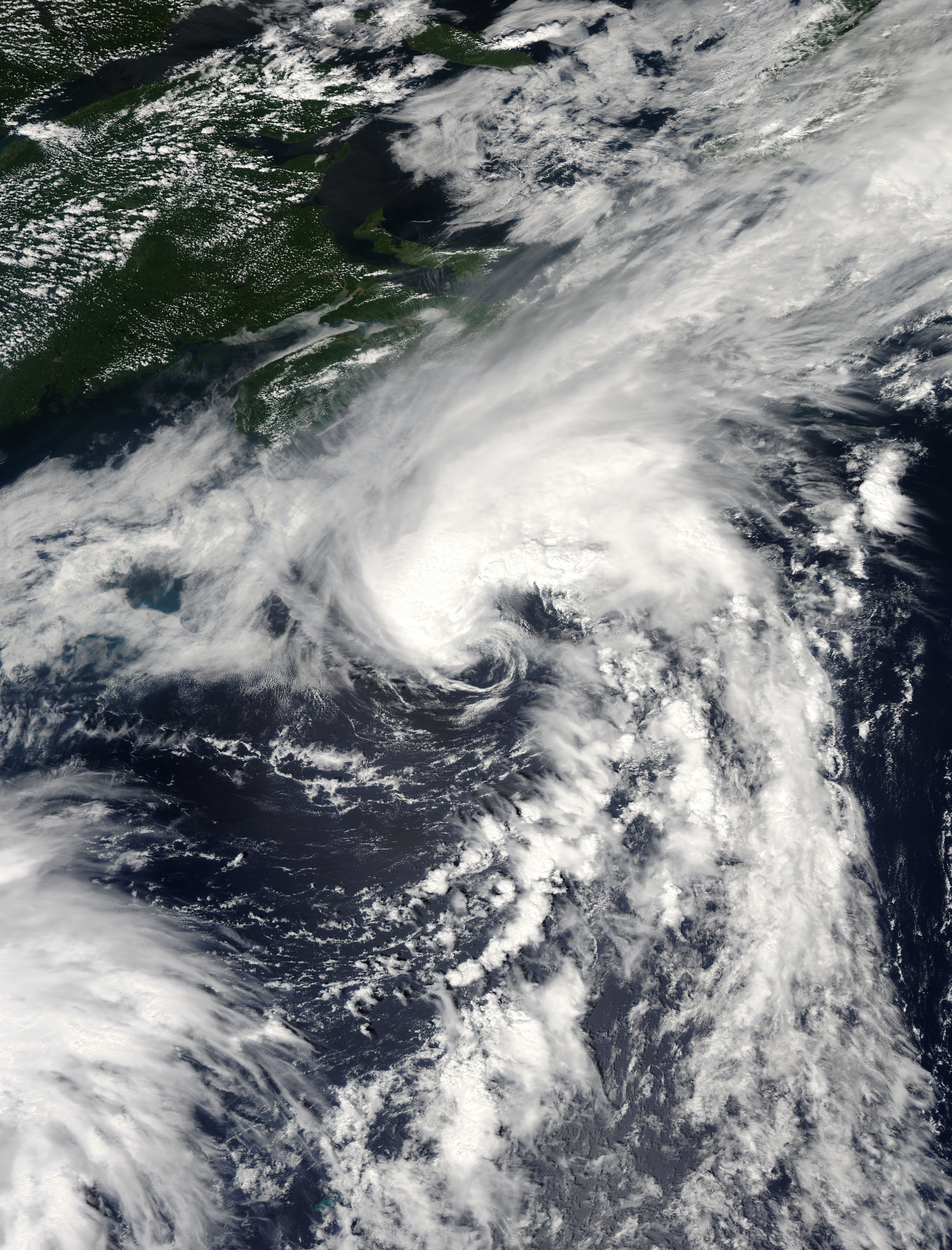 Tropical Storm Chantal on July 31, 2007